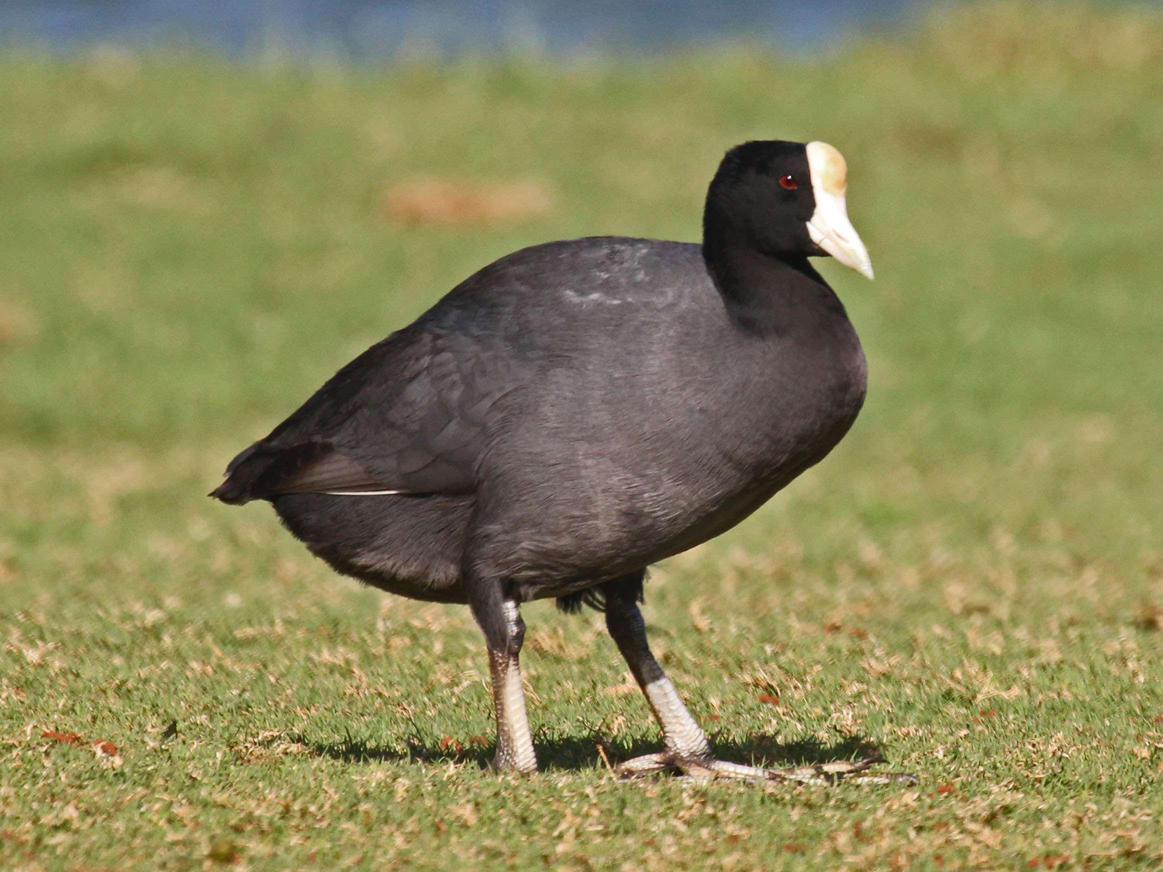 Hawaiian Coot (Fulica alai) - Kauai, Hawaii. This particular coot has a yellowish frontal shield on its forehead.